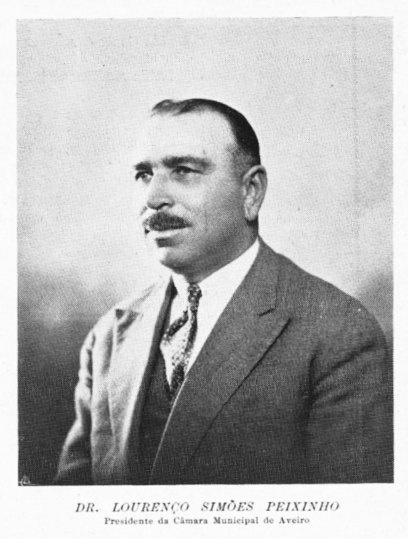 Photo of Aveiro's municipality president Lourenço Simões Peixinho